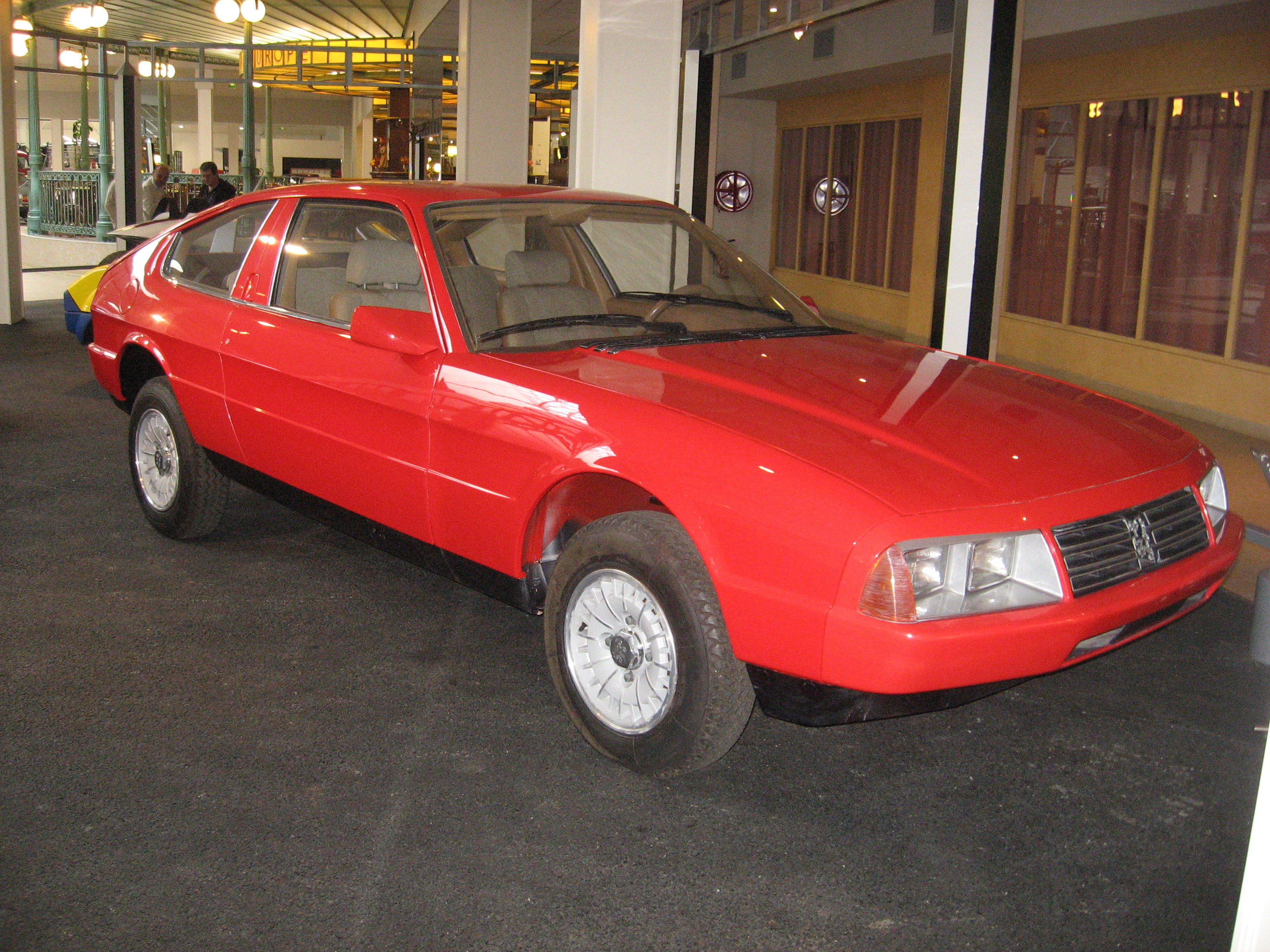 Subject: Peugeot E27, prototype Date:April 26th, 2011 Place/Country: Musée de l'Aventure Peugeot, Sochaux (F) I release all rights in the public domain.